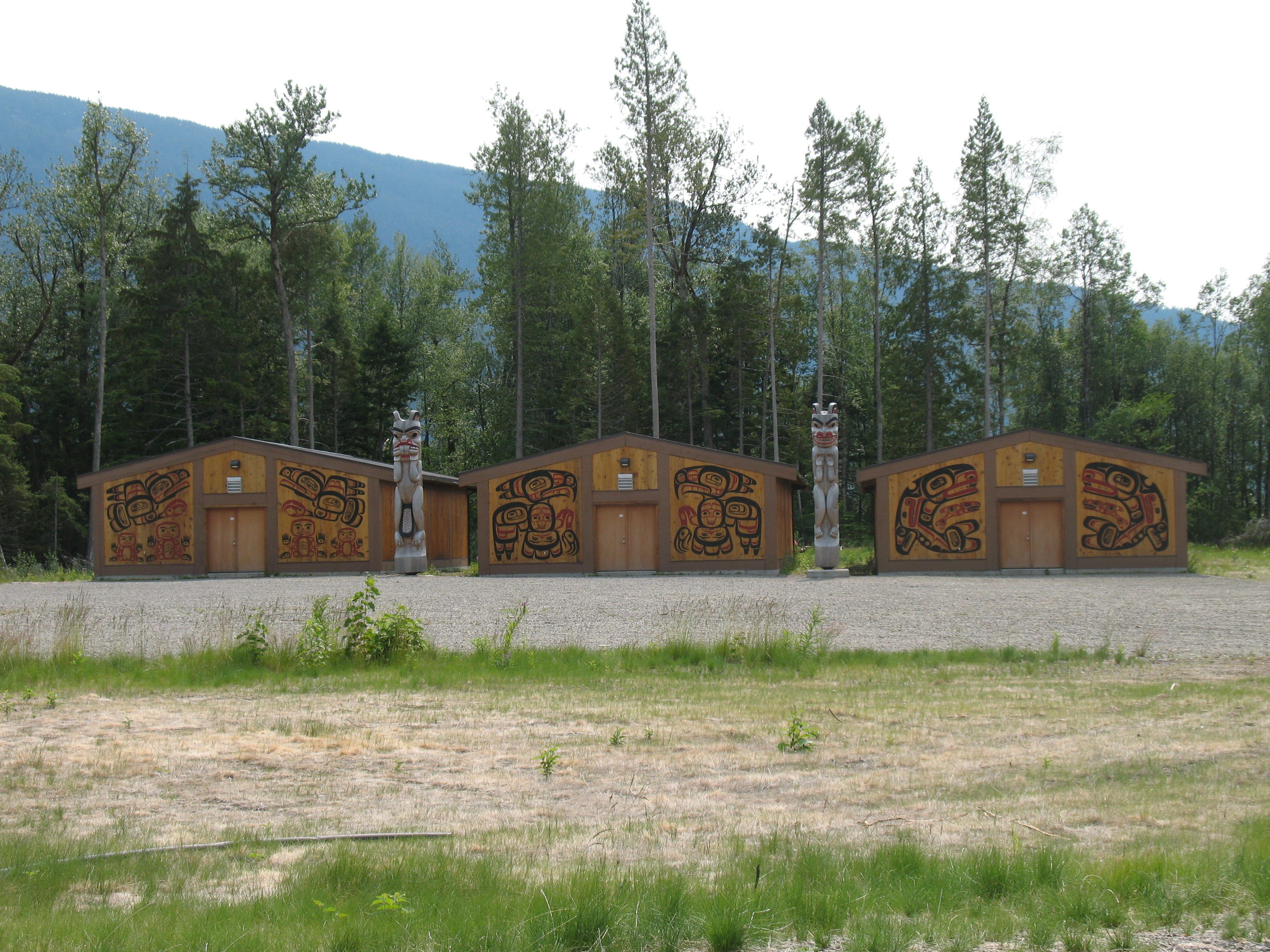 Houses in Gitselas Canyon, B. C.